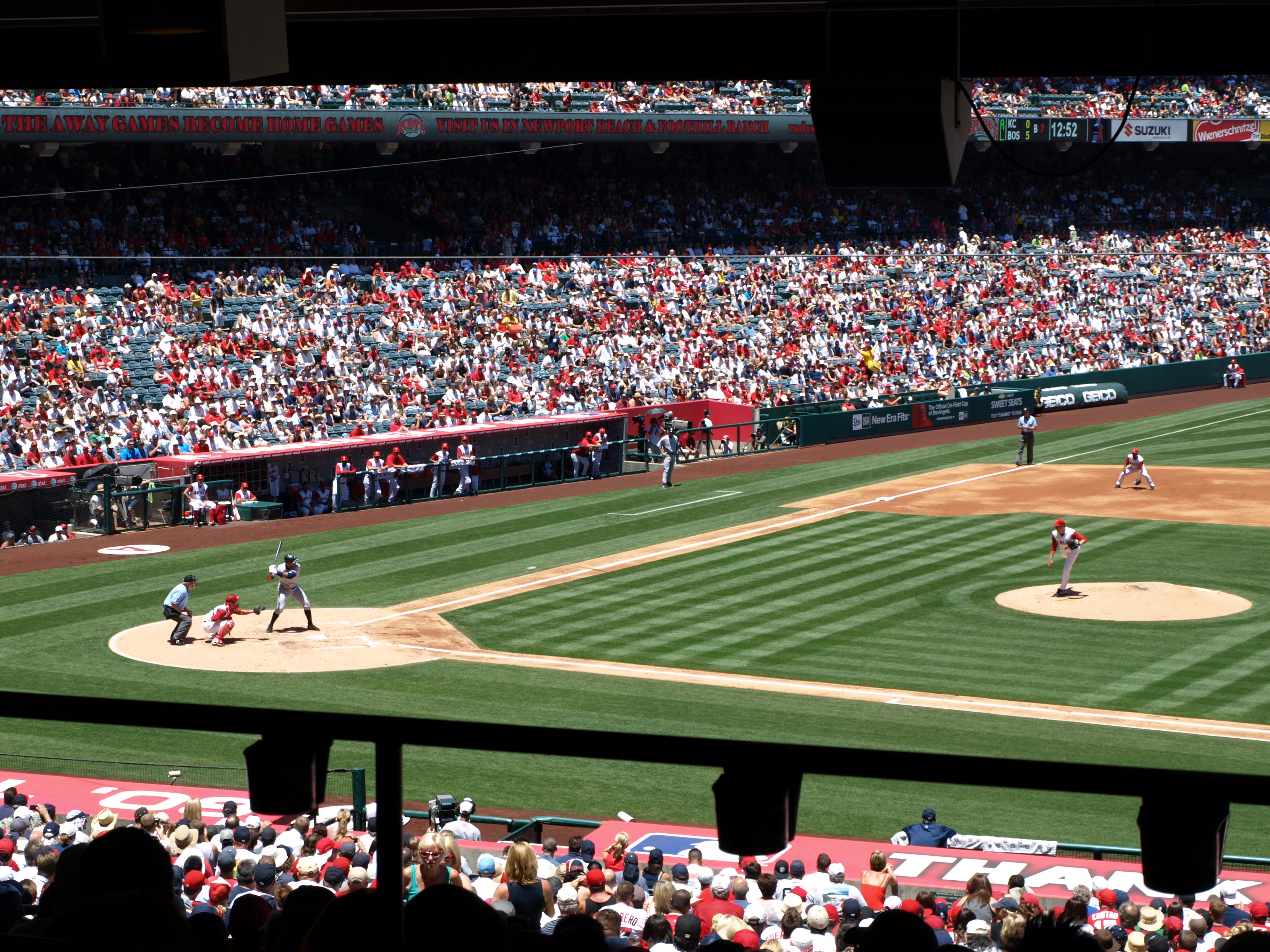 Los Angeles Angels' starting pitcher John Lackey delivering the pitch against an opposing New York Yankees batter at a July 12, 2009 home game at Angel Stadium of Anaheim. Lackey would eventually be awareded with the win after recording six strikeouts, six hits, two runs and two errors over seven innings pitched. This photograph was taken with an Olympus E-510 DSLR camera